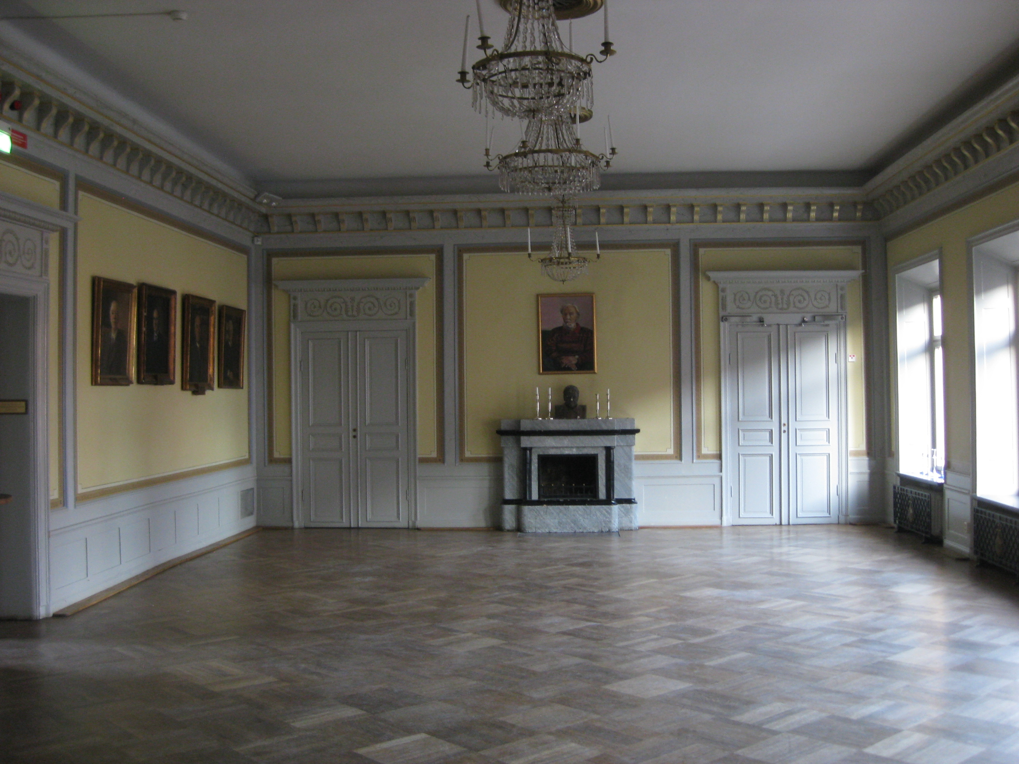 The ball room of Uplands nation, a student society in Uppsala.